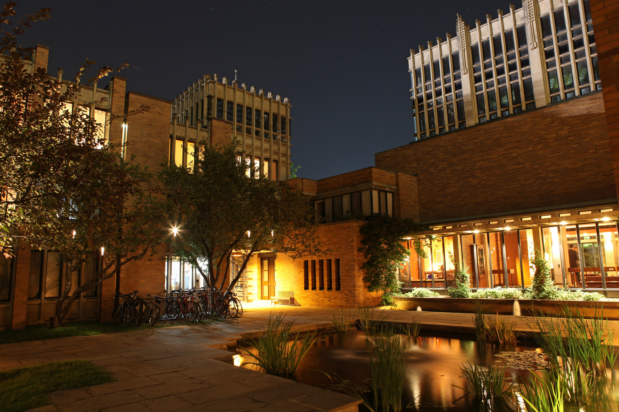 A photograph showing the quad of Massey College at night. It looks across the pond to the Tower above the front gate, with the porter's lodge beside it. On the right are windows looking into the common room and the Principal's private office